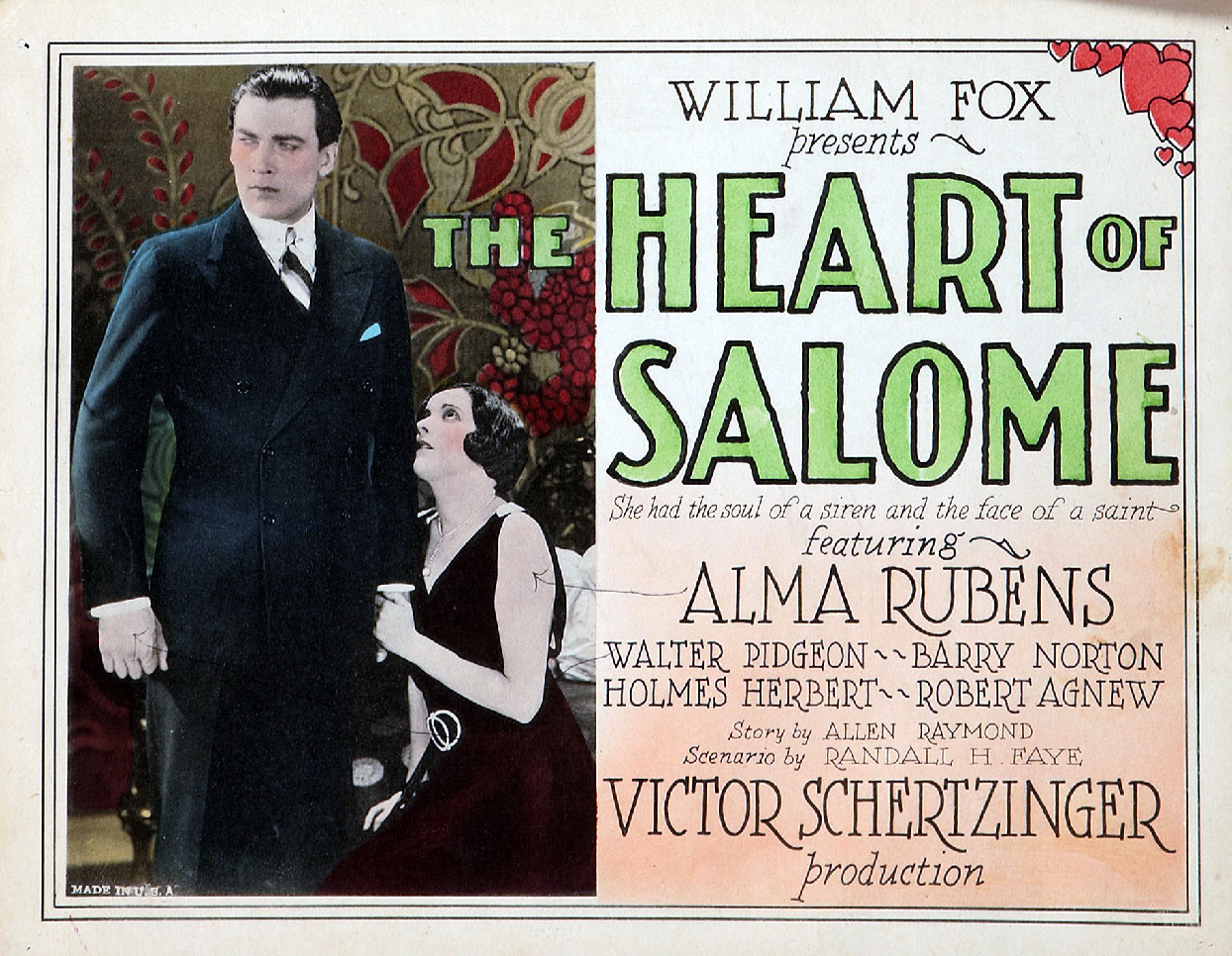 Lobby card for the American romantic drama film The Heart of Salome (1927).